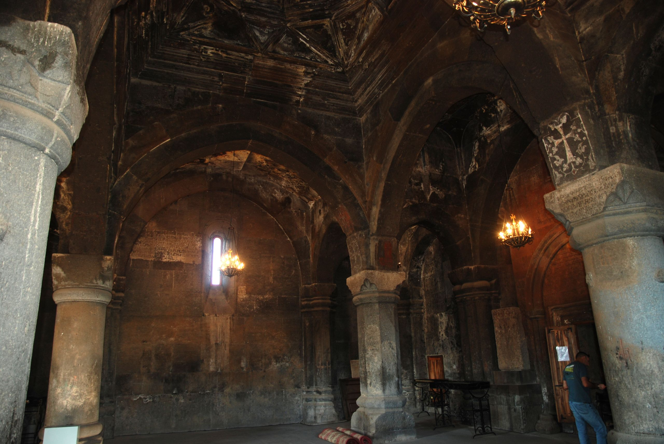 Saghmosavank, gavit